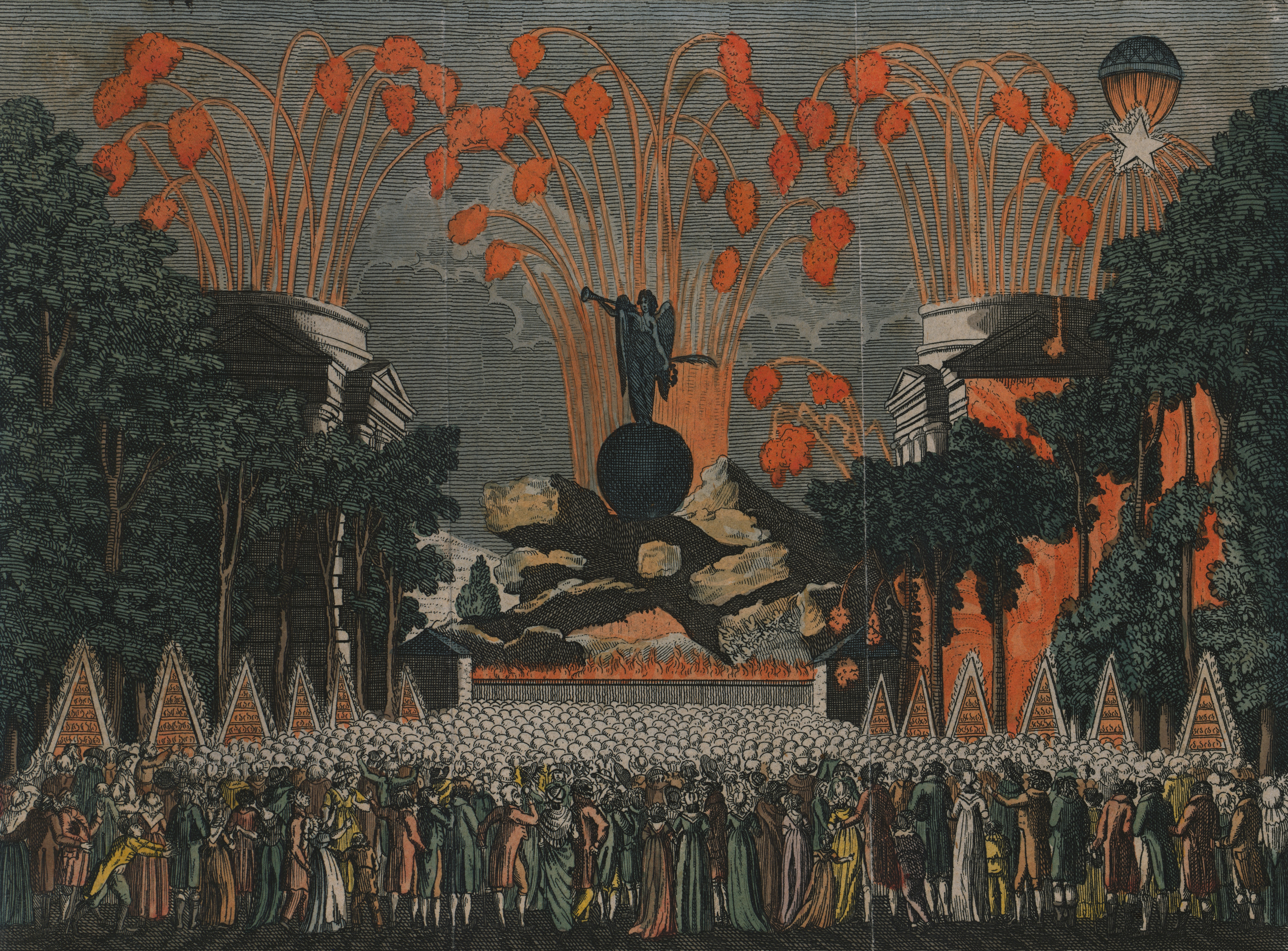 Print shows a crowd viewing fireworks at a Bastille Day celebration in Paris, France. A balloon appears in the upper right corner.